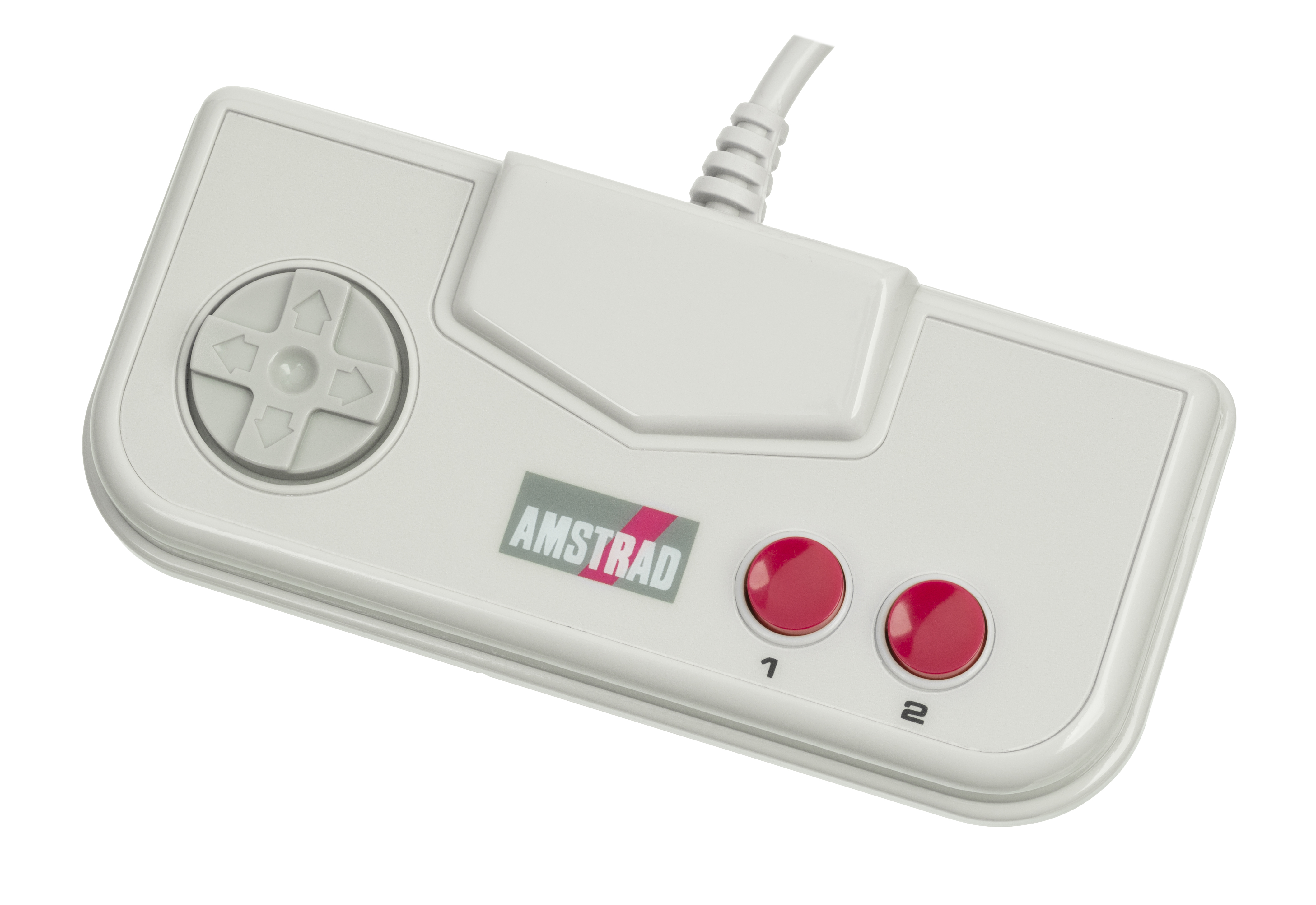 The controller for the Amstrad GX4000, a video game console released by Amstrad in 1990. This Europe-exclusive console was a repackaging of Amstrad's line of CPC Plus computers, offering direct conversions of CPC Plus titles. It was only on the market for a short while before being discontinued.